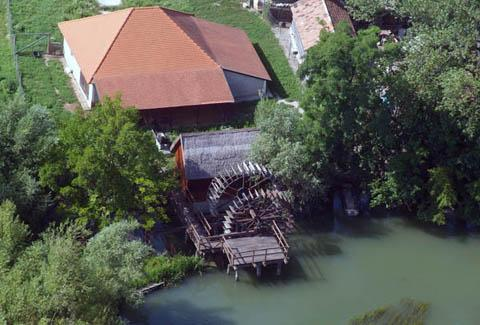 Jahodná, Slovakia, watermill, aerial photography